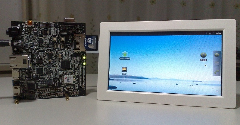 Beada Frame works with Pandaboard.